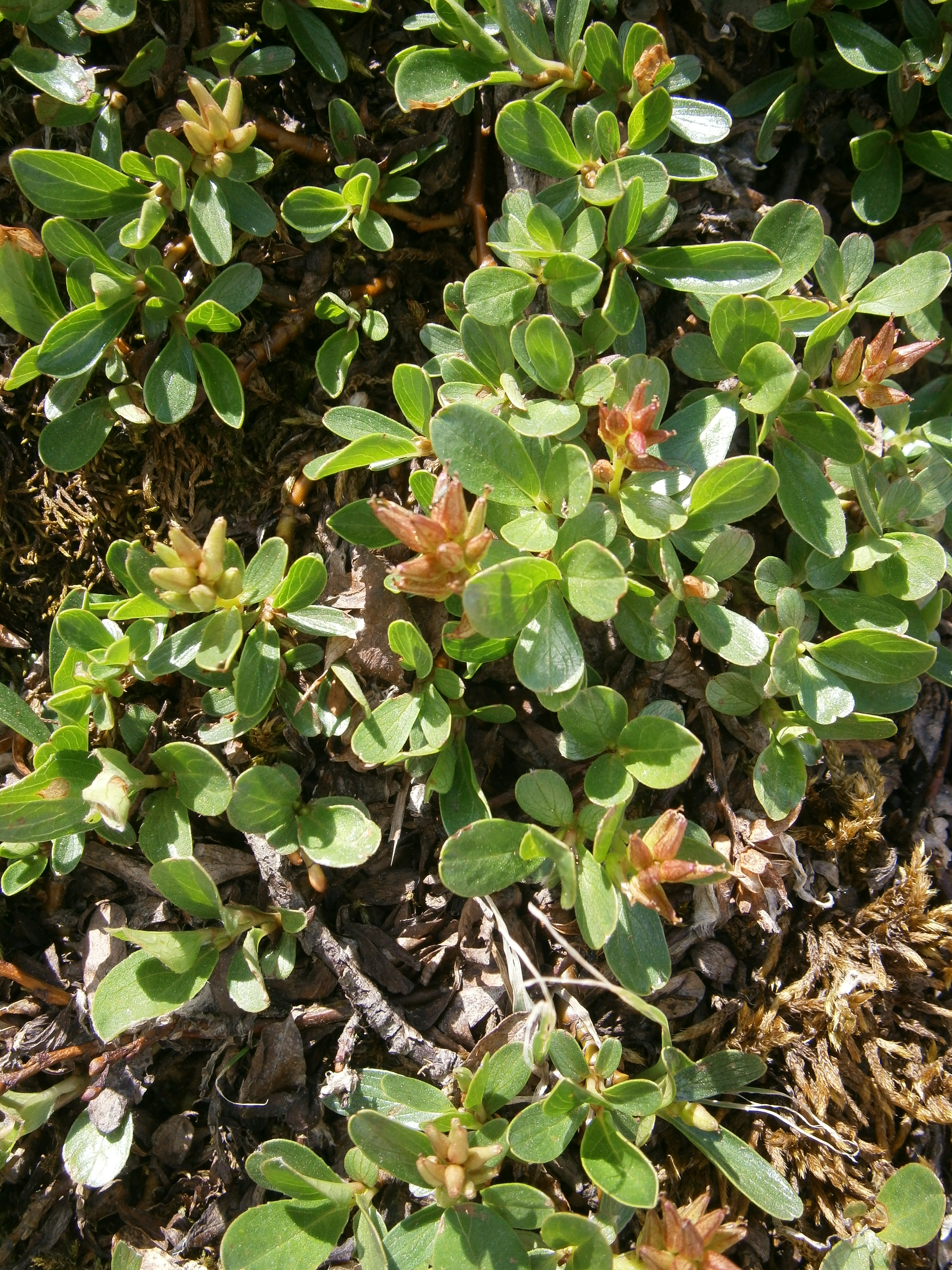 Salix retusa